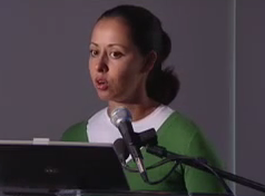 Priscilla Monge giving a presentation at the Brooklyn Museum as part of its exhibition "Global Feminisms" (March 2007)